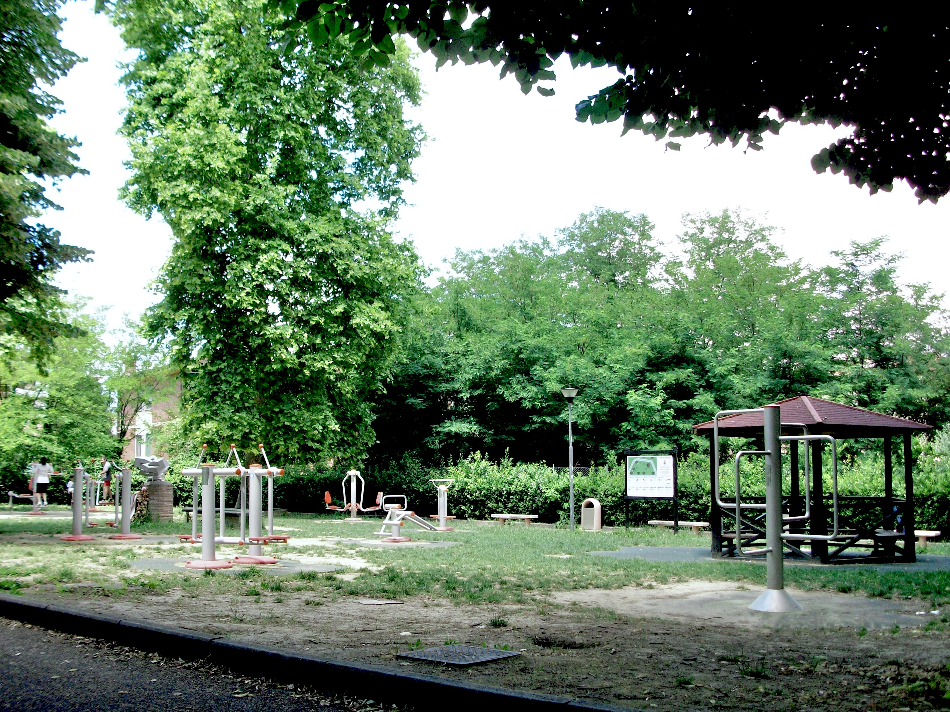 Zona ginnastica, Viale delle Piagge, Pisa.